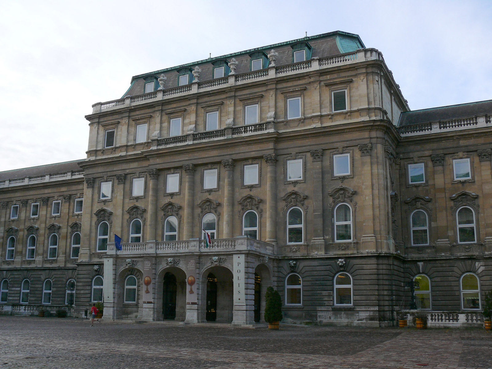 The venue: National Széchényi Library